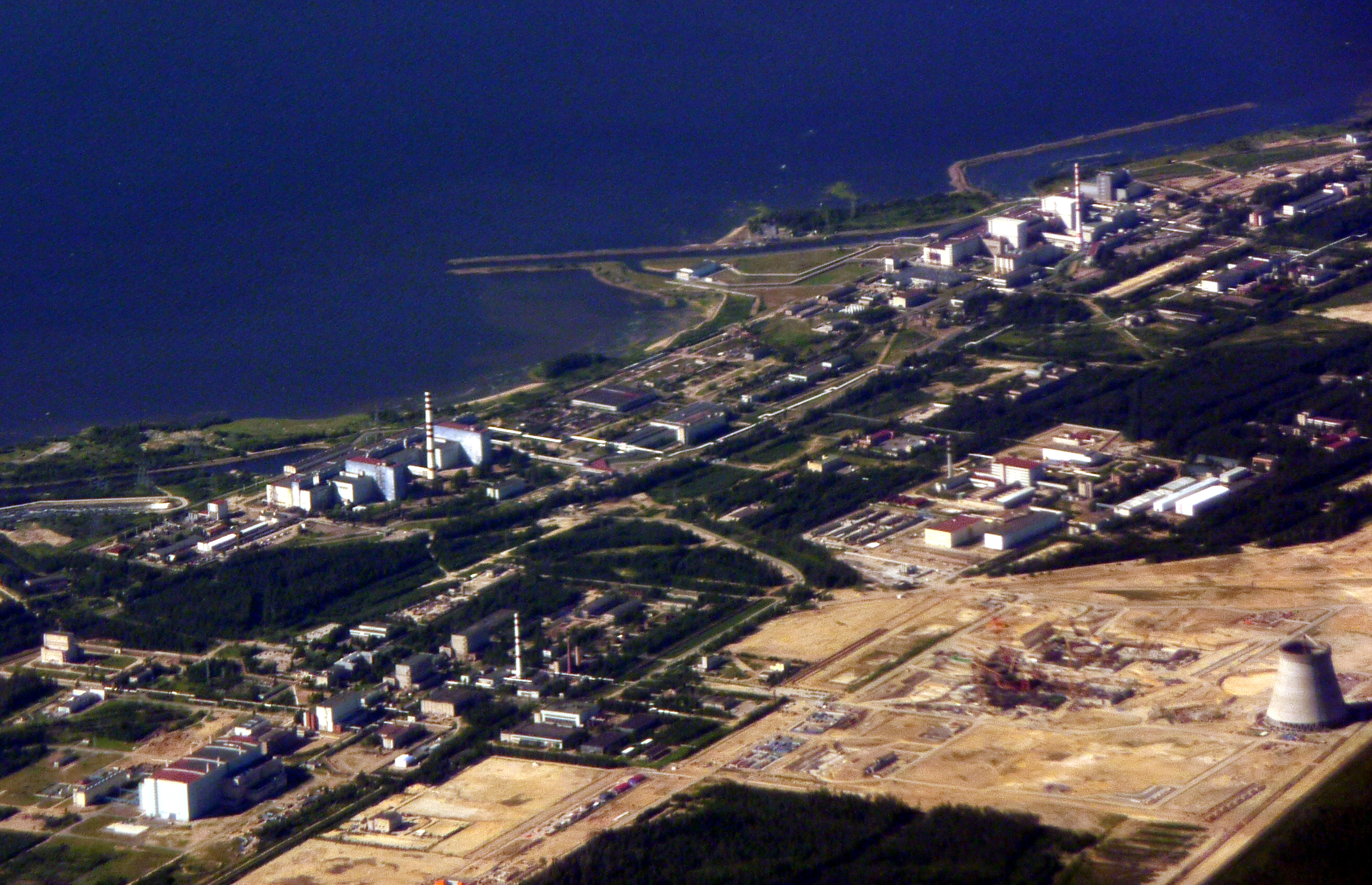 Site of the Nuclear Power Plant Leningrad, including the construction site of the Nuclear Power Plant Leningrad II; photo taken from an airplane.